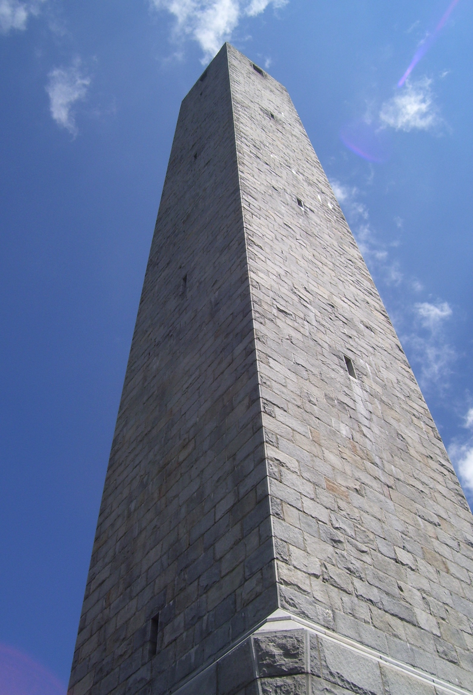 High Point Monument, in High Point State Park, New Jersey.